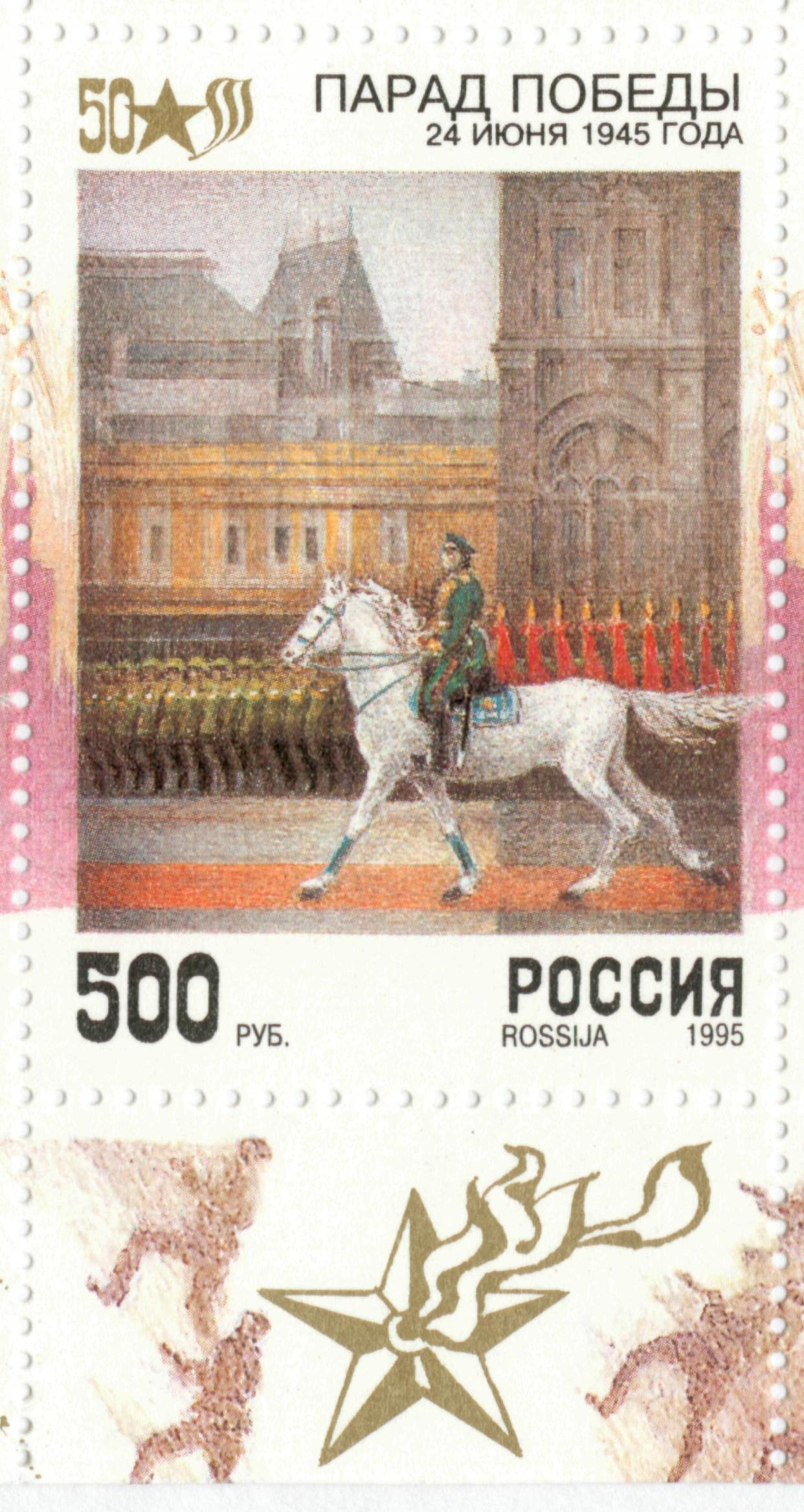 Postage stamp, Victory Parade with Marshal Zhukov riding a white horse. Russia, 1995. Unused. From the stamp sheet 50th anniversary of the Victory in World War II.